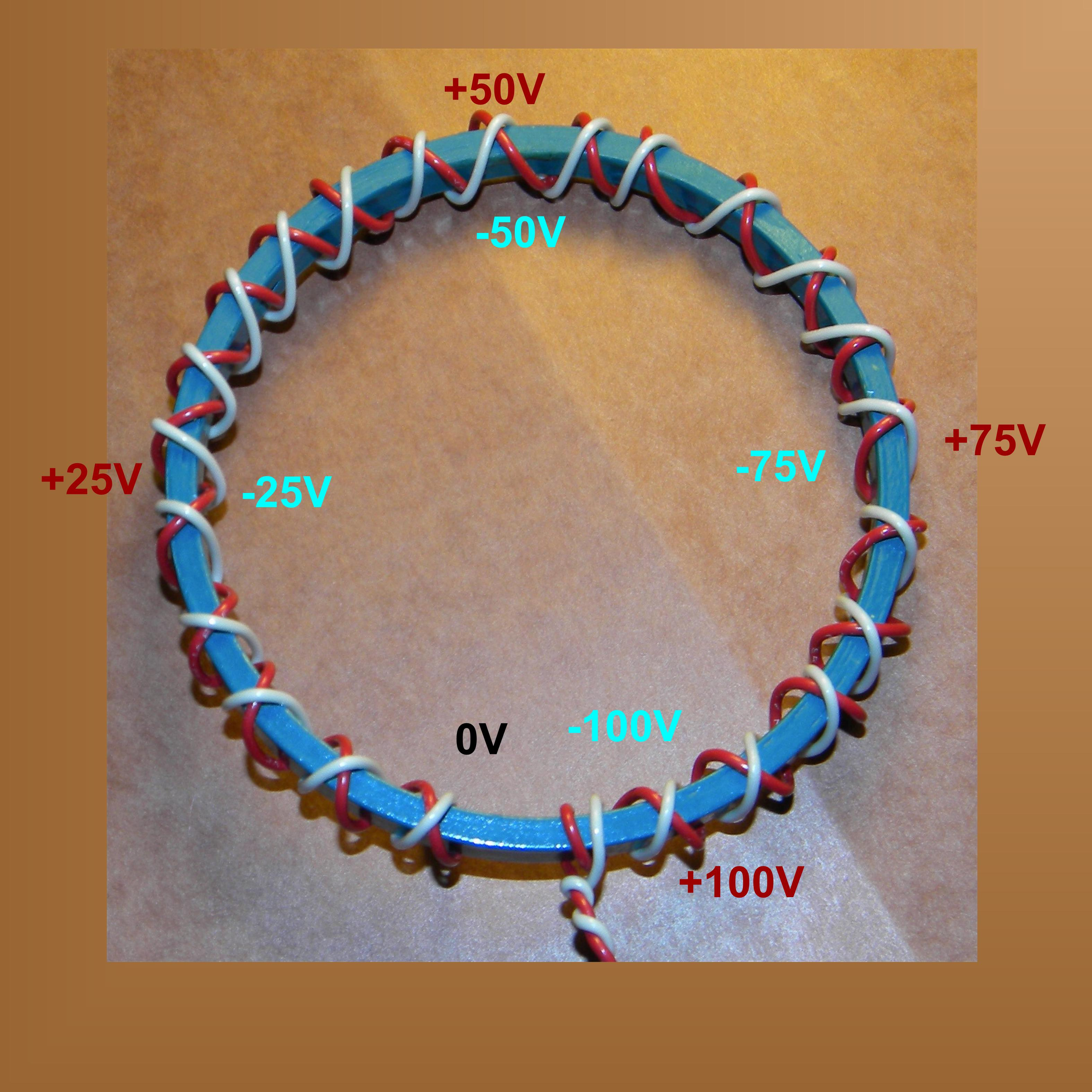 Showing the voltage distribution of a toroid with a return winding.